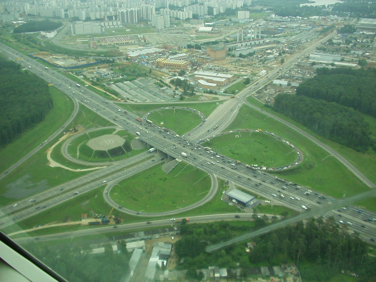 M9 route as Novorizhskoe shosse (closer) joins MKAD (upper left to right) in Moscow, Russia. Later, the cloverleaf was rebuilt into a quarter-stack with left-turn ramps, retaining the cloverleaf 'ears'